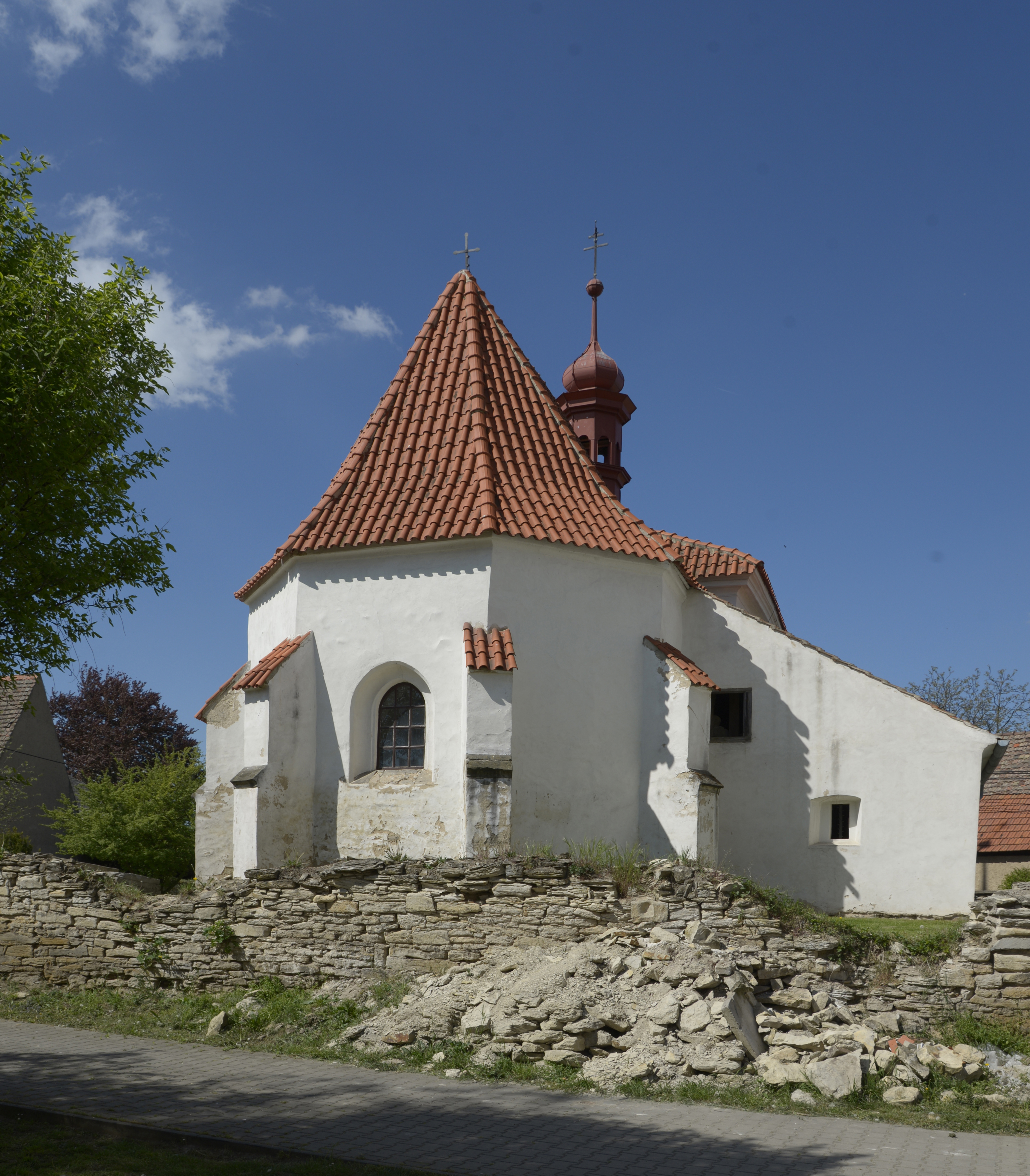 Saint Nicholas Church in Lounky